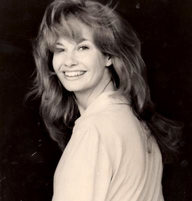 photo of Linda Gary, actress, voice actress